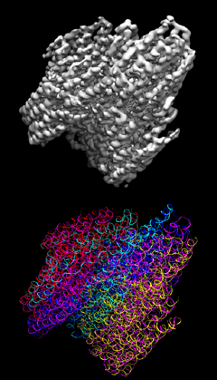 EM map (top) and atomic model (lower, colored) of M13 DNA folded to make a shape. DNA origami object from viral DNA visualized by electron microscopy. (PMID:23169645) The map is at the top and atomic model of the DNA colored below. Deposited in EMDB EMD-2210